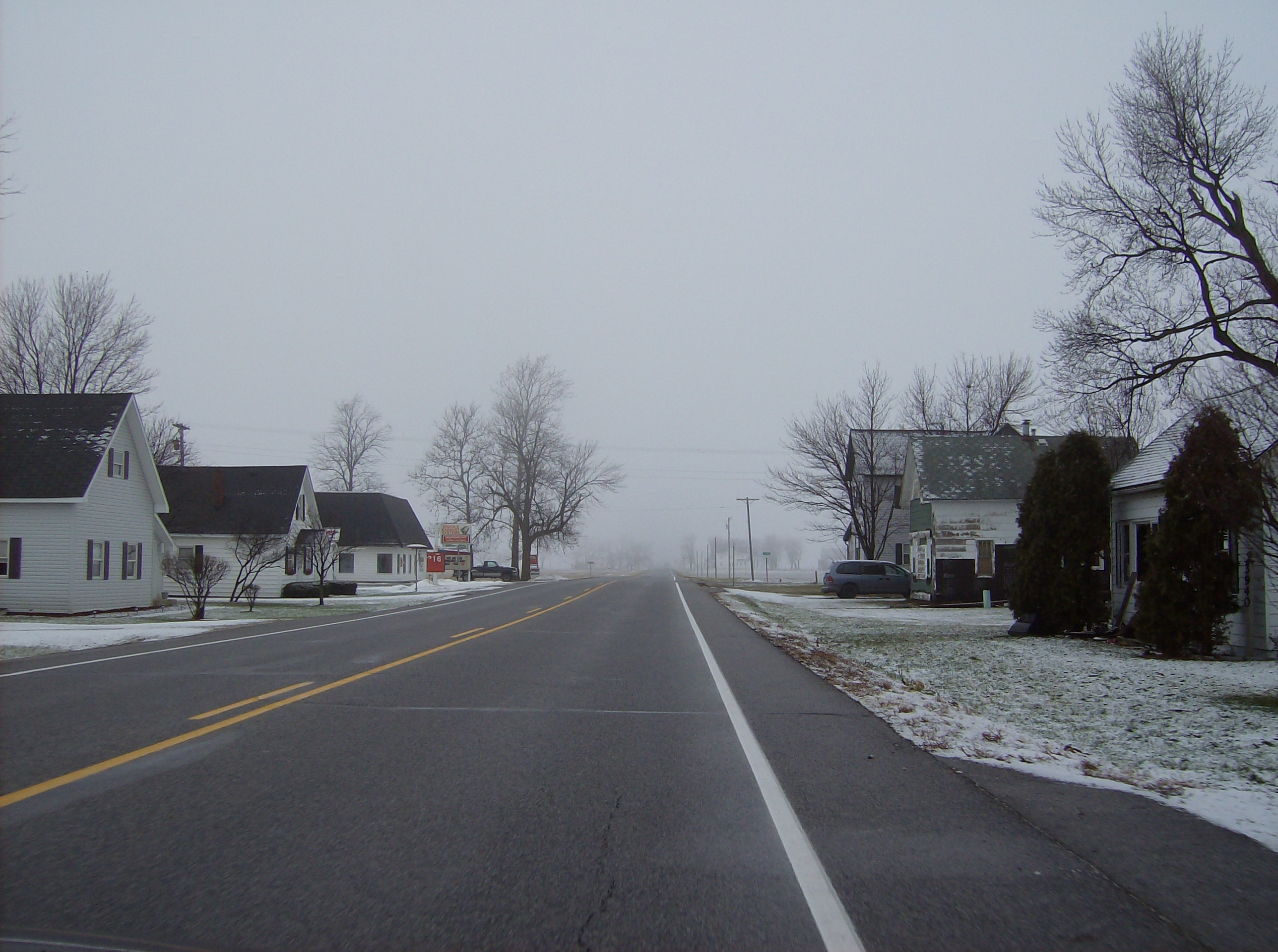 Along westbound State Road 26 in Hackleman, an unincorporated community in western Liberty Township, Grant County, Indiana, United States.